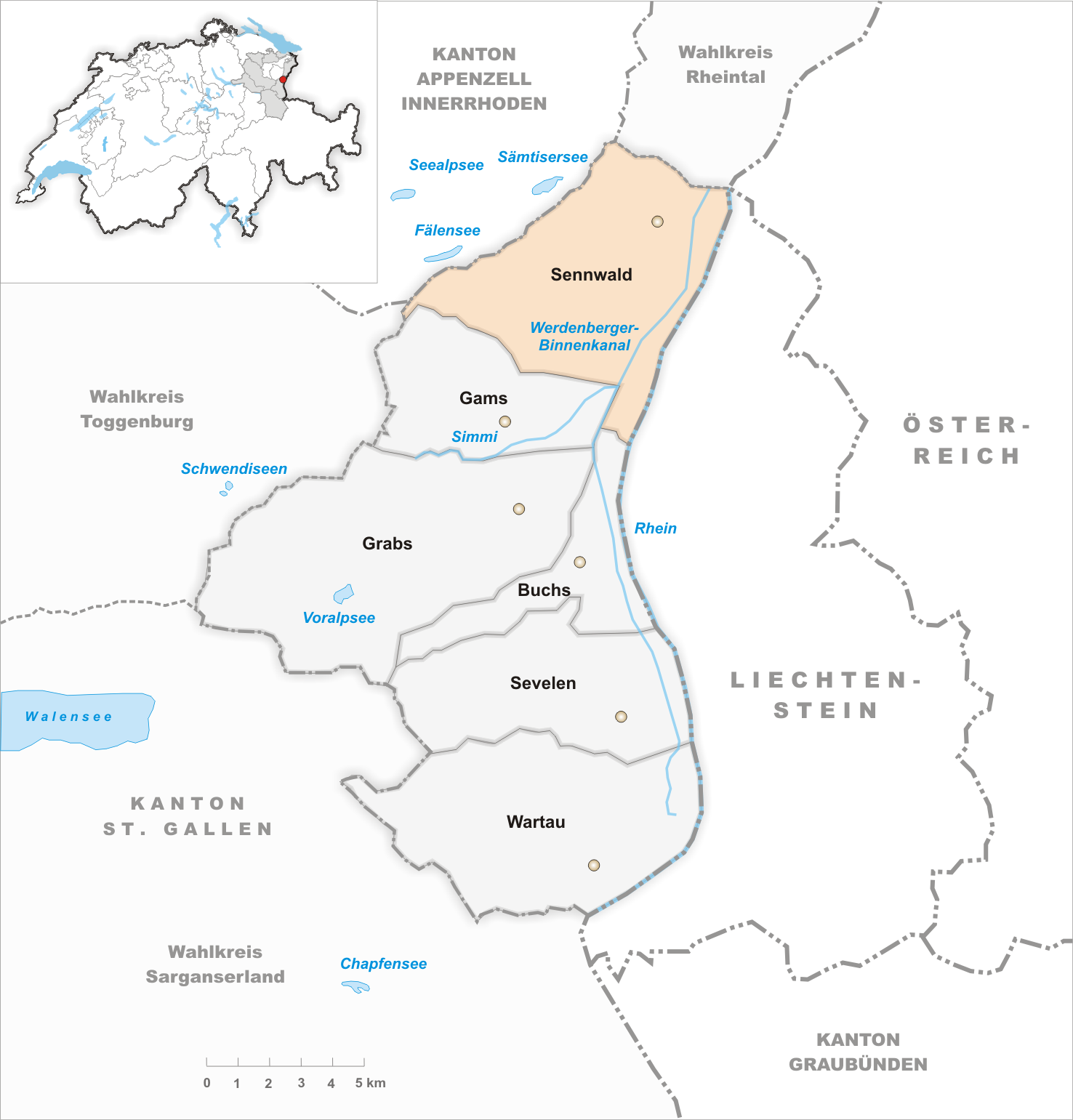 Municipality Sennwald